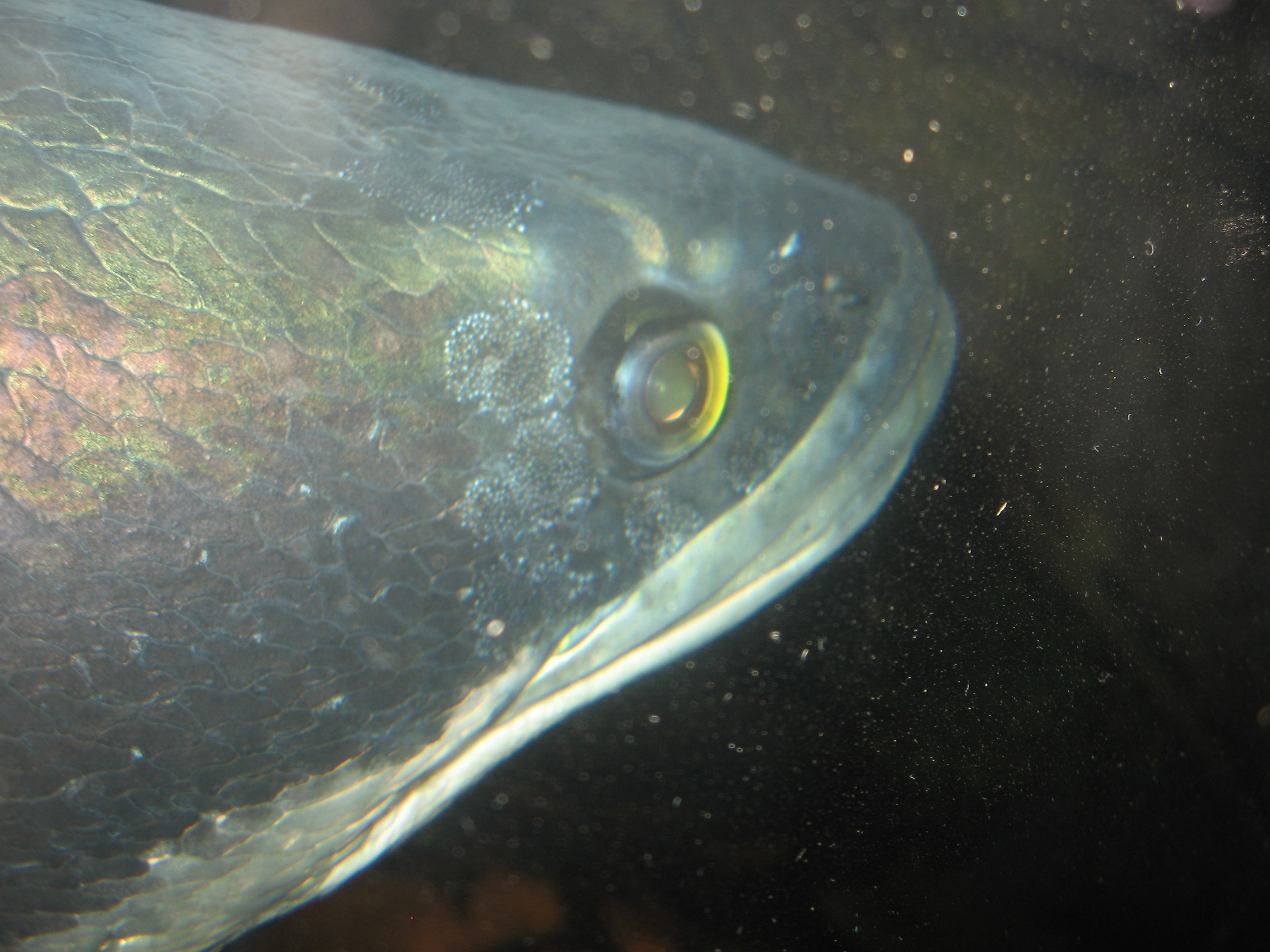 A Giant Snakehead at the OKC Zoo